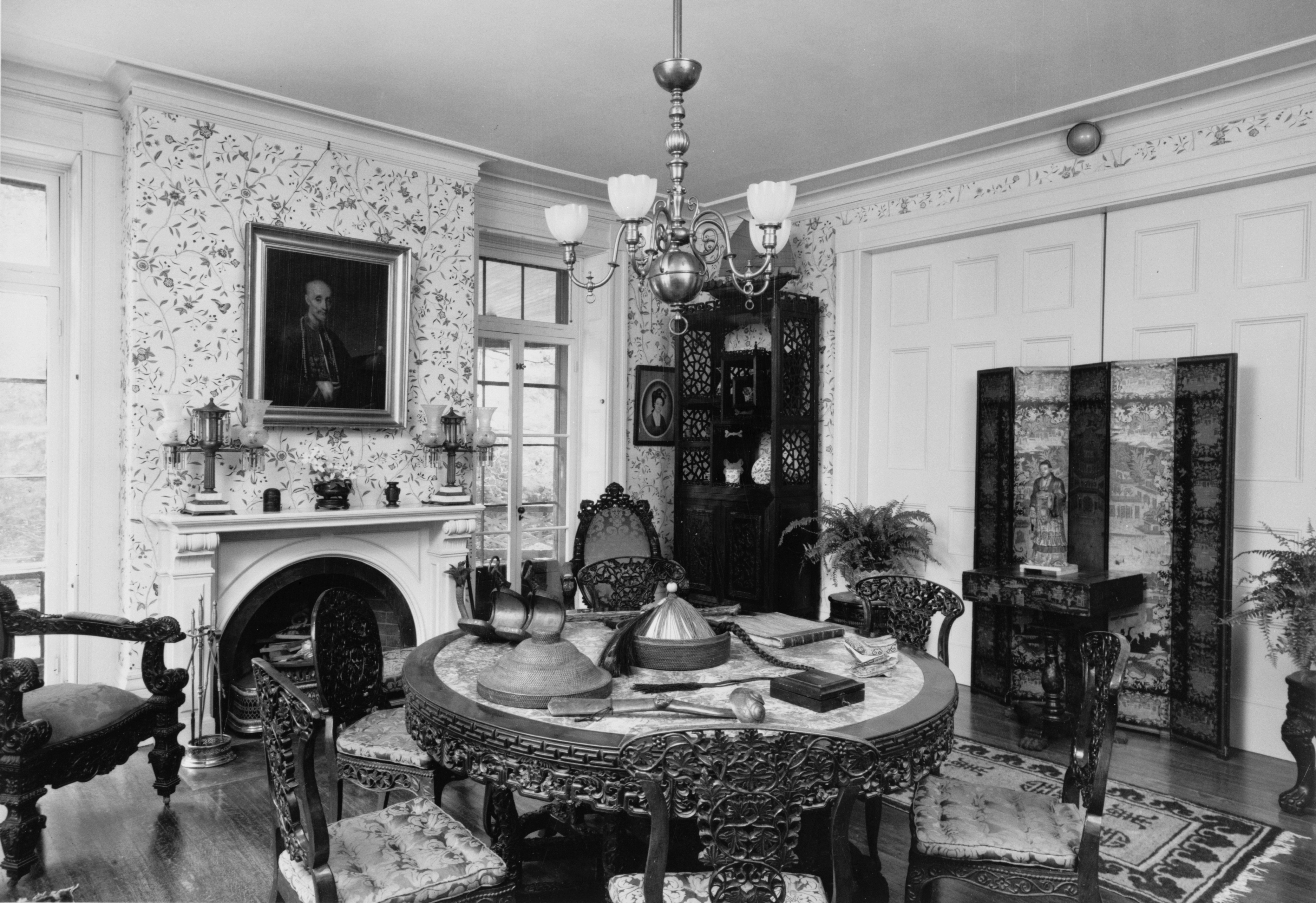 The Captain Robert Bennet Forbes House, 215 Adams Street, Milton, Massachusetts, USA. Photograph of the parlor.